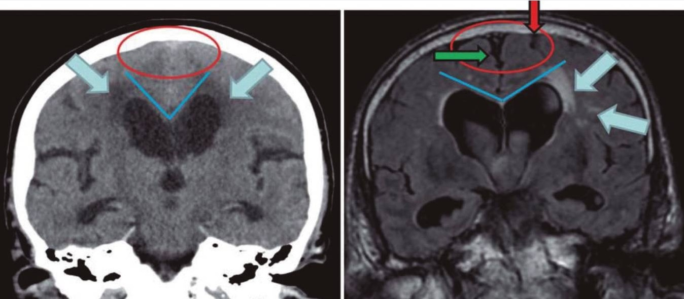 Head CT in normal pressure hydrocephalus (left image) and head MRI (right image), in the coronal plane at the level of the posterior commissure. In the left image, the CSF spaces over the convexity near the vertex are narrowed ("tight convexity", red circle), as are the medial cisterns (red circle) - these are typical findings of NPH. On the right image, however, the CSF spaces over the convexity near the vertex (red arrow) and the medial cisterns (green arrow) are widened, a finding consistent with brain atrophy. The blue lines in both images indicate the callosal angle: an acute angle is typical of NPH (left image), while an obtuse angle is typical of brain atrophy (right image). The blue arrows indicate leucoaraiosis (periventricular signal alterations). In the left image these may well represent transependymal CSF diapedesis due to NPH. The unilateral occurrence of these alterations in right image suggests they are probably due to vascular encephalopathy.